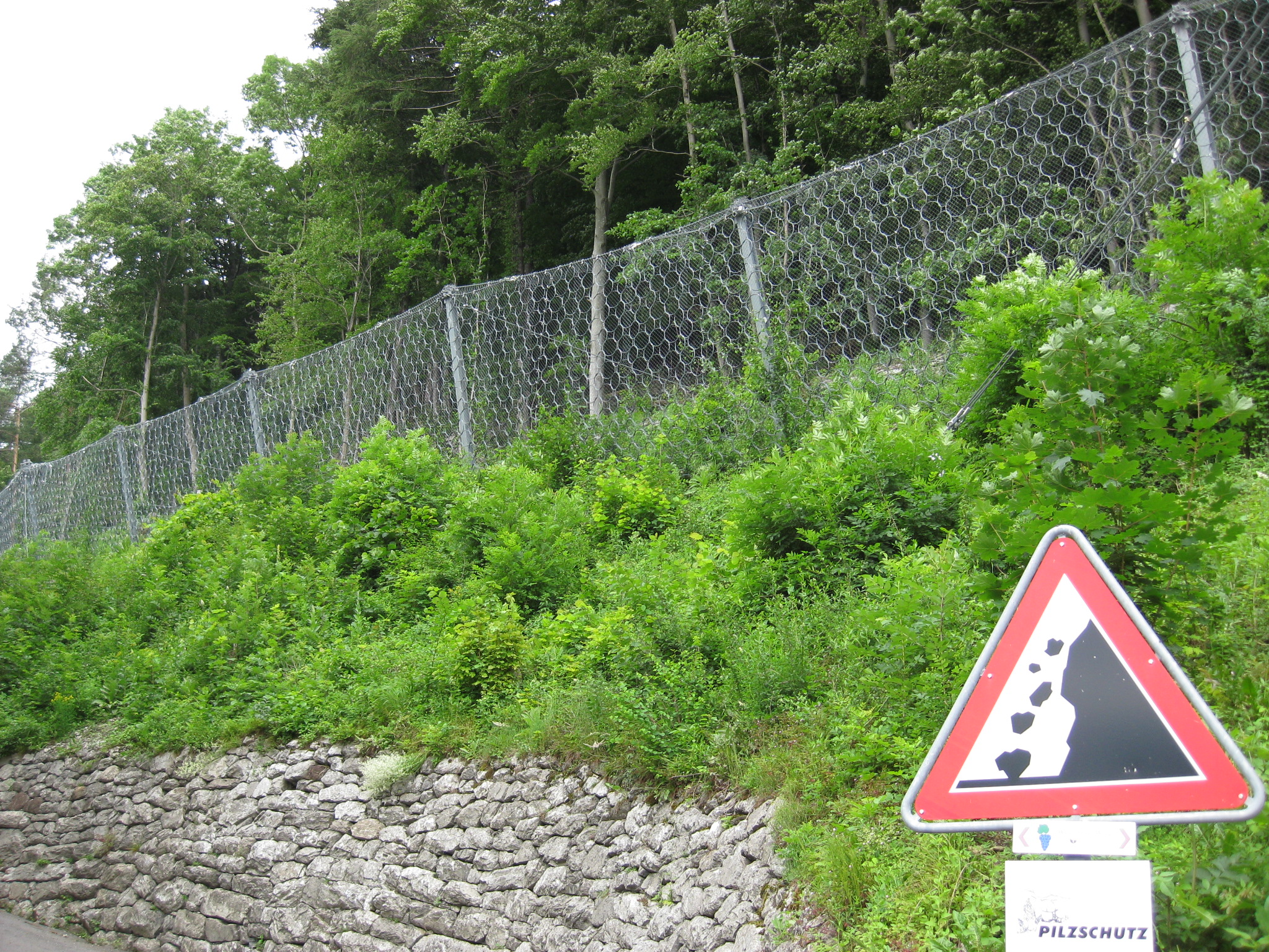 Switzerland